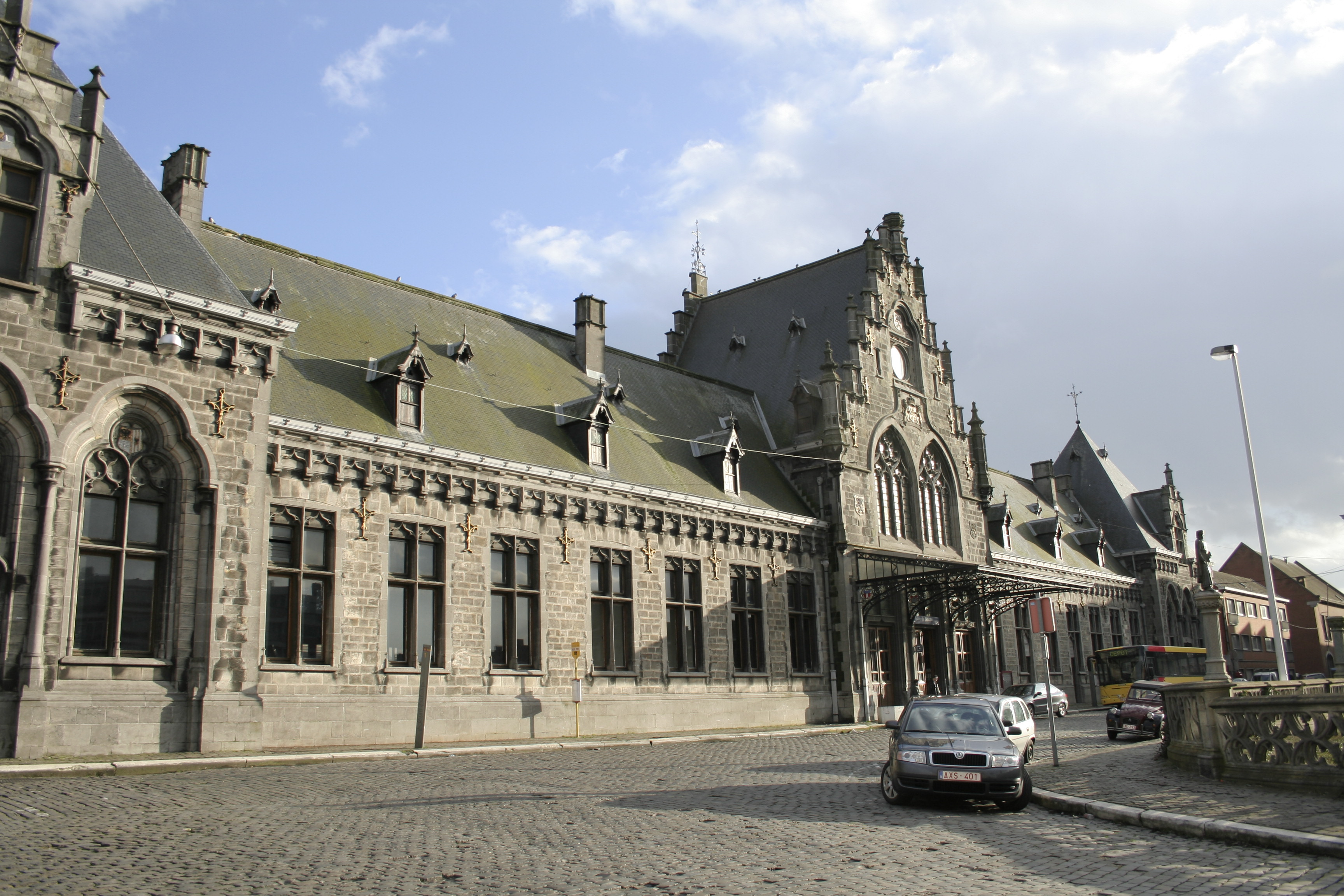 Binche (Belgium), Place Derbaix. – The train station.